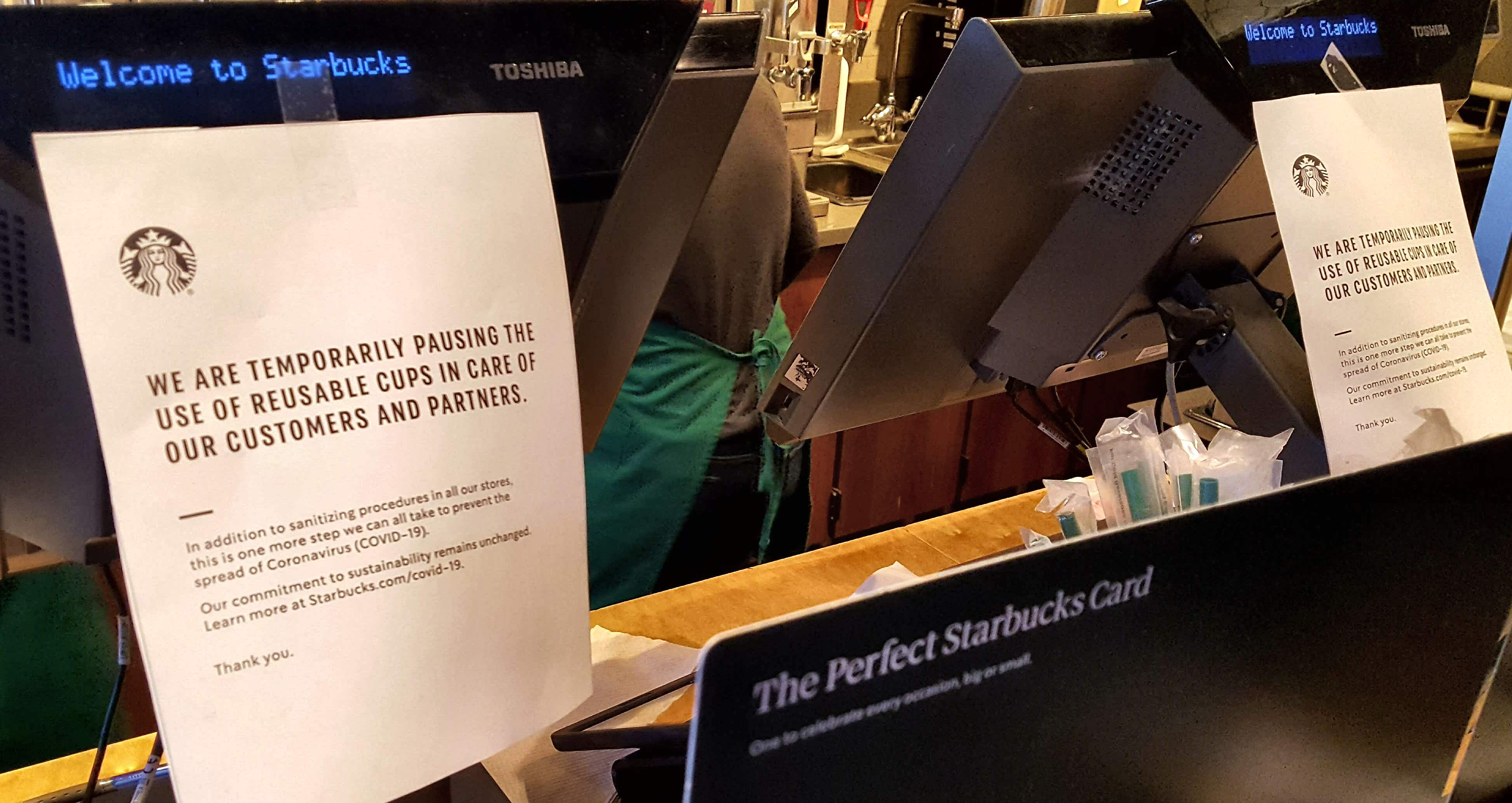 Posters taped to a register at a Starbucks in Charlottesville, Virginia letting customers know that reusable cups will not be used during the ongoing COVID-19 outbreak.